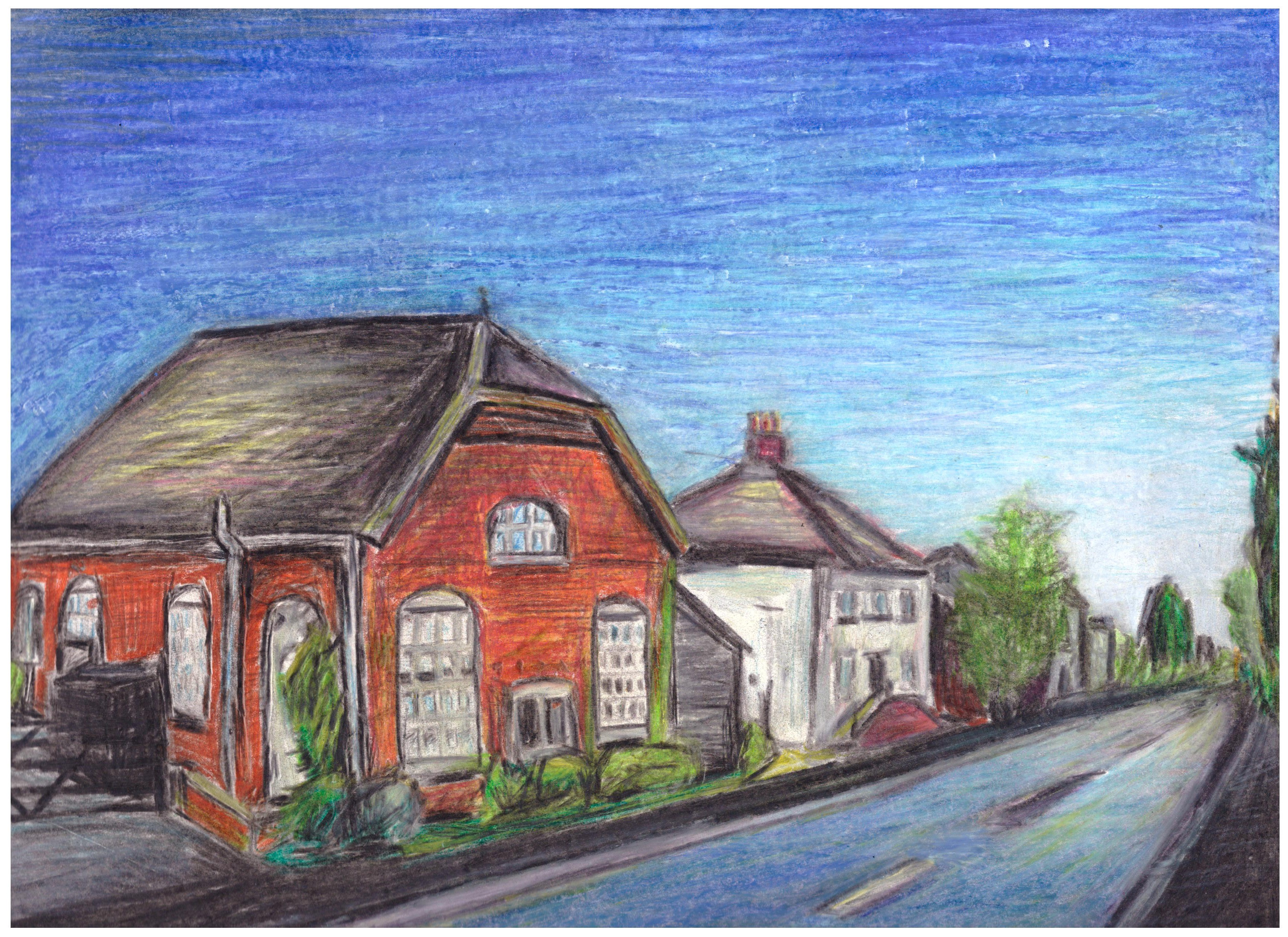 A painting of the school created by Lark, a pupil.